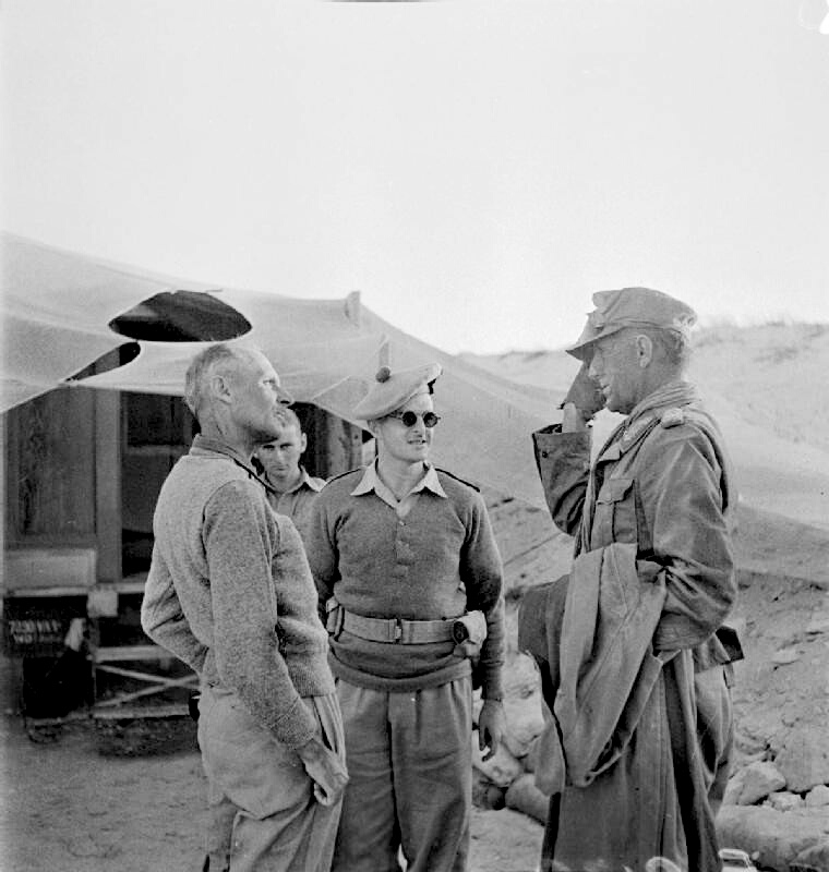 Field Marshal the Viscount Montgomery of Alamein Kg Gcb Dso 1887-1976 The Second World War 1939 - 1945: General von Thoma, Commander of the famed Afrika Corps, surrenders to Montgomery at 8th Army TAC HQ. The victory at Alamein marked the turning point in Allied fortunes in the Second World War.